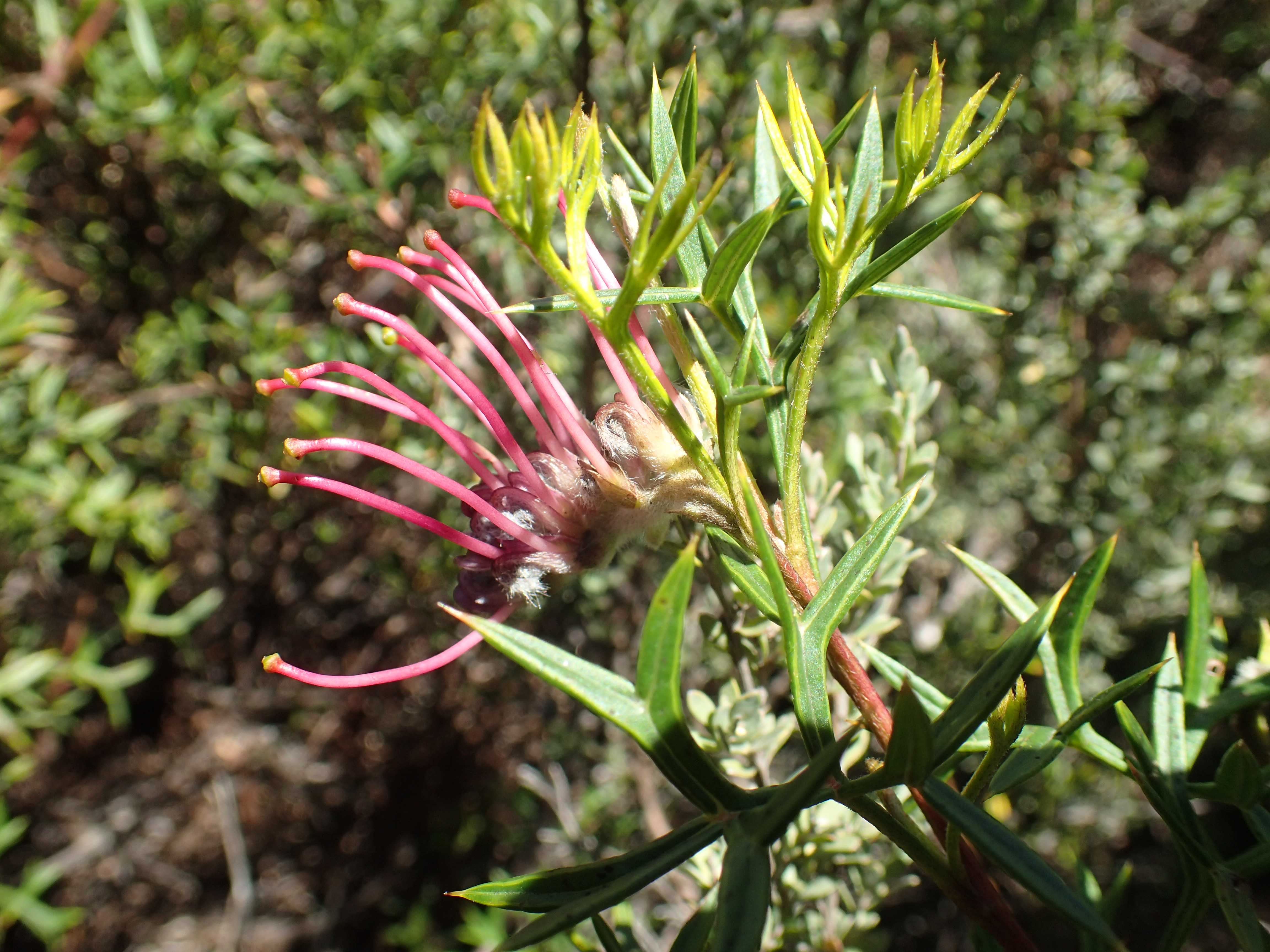 Grevillea acanthifolia subsp. stenomera growing near a thicket of Melaleuca pityoides 1.5 km along Point Lookout Road